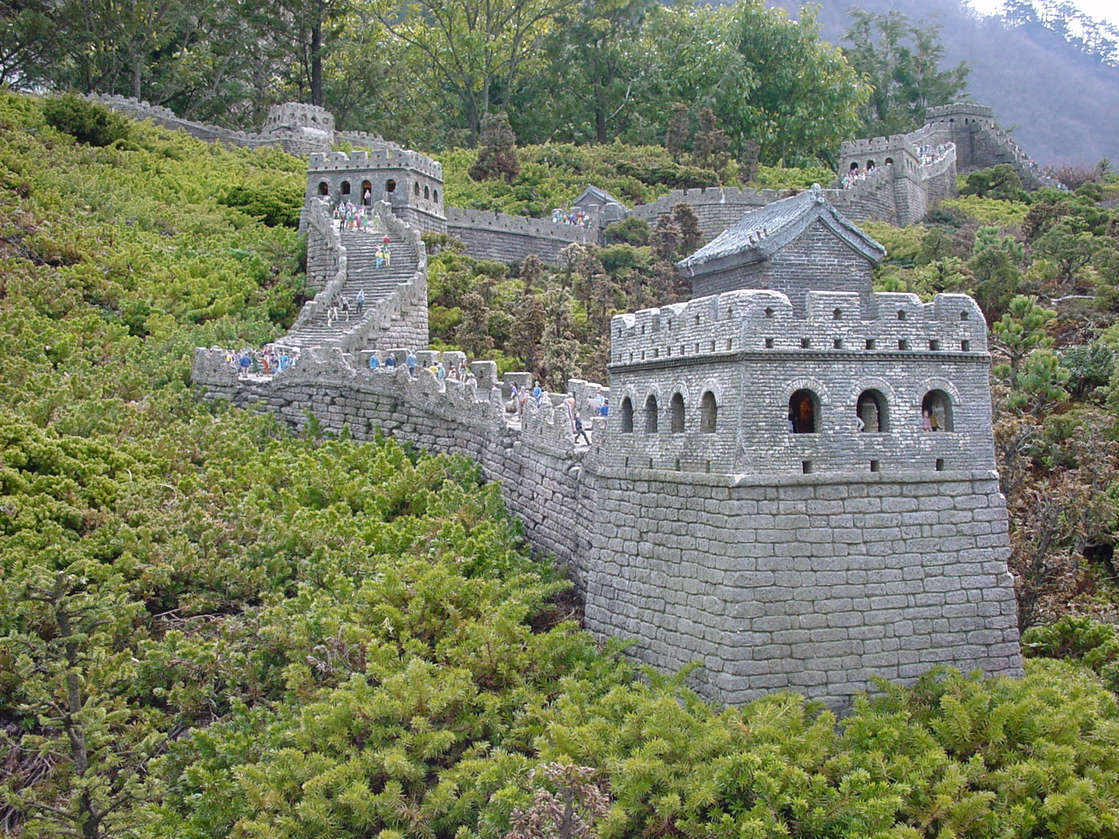 1:25 scale miniature version of the Great Wall of China at Tobu World Square